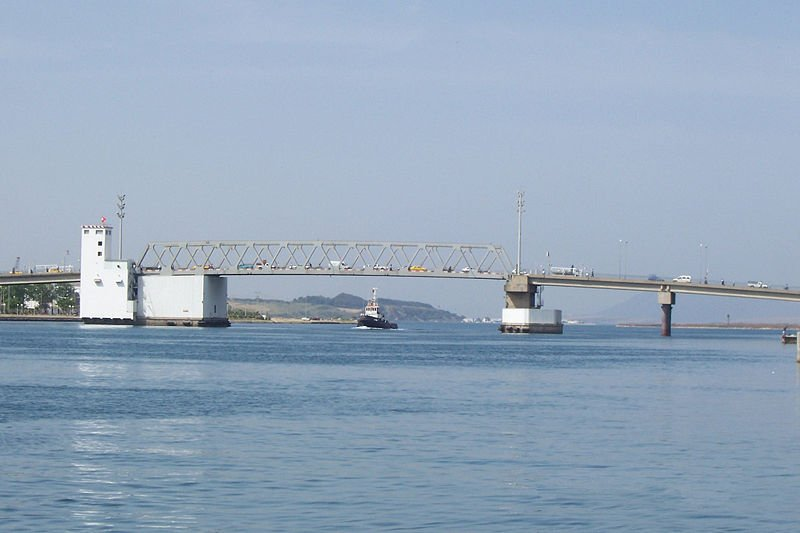 Bizerte bridge, north Tunisia